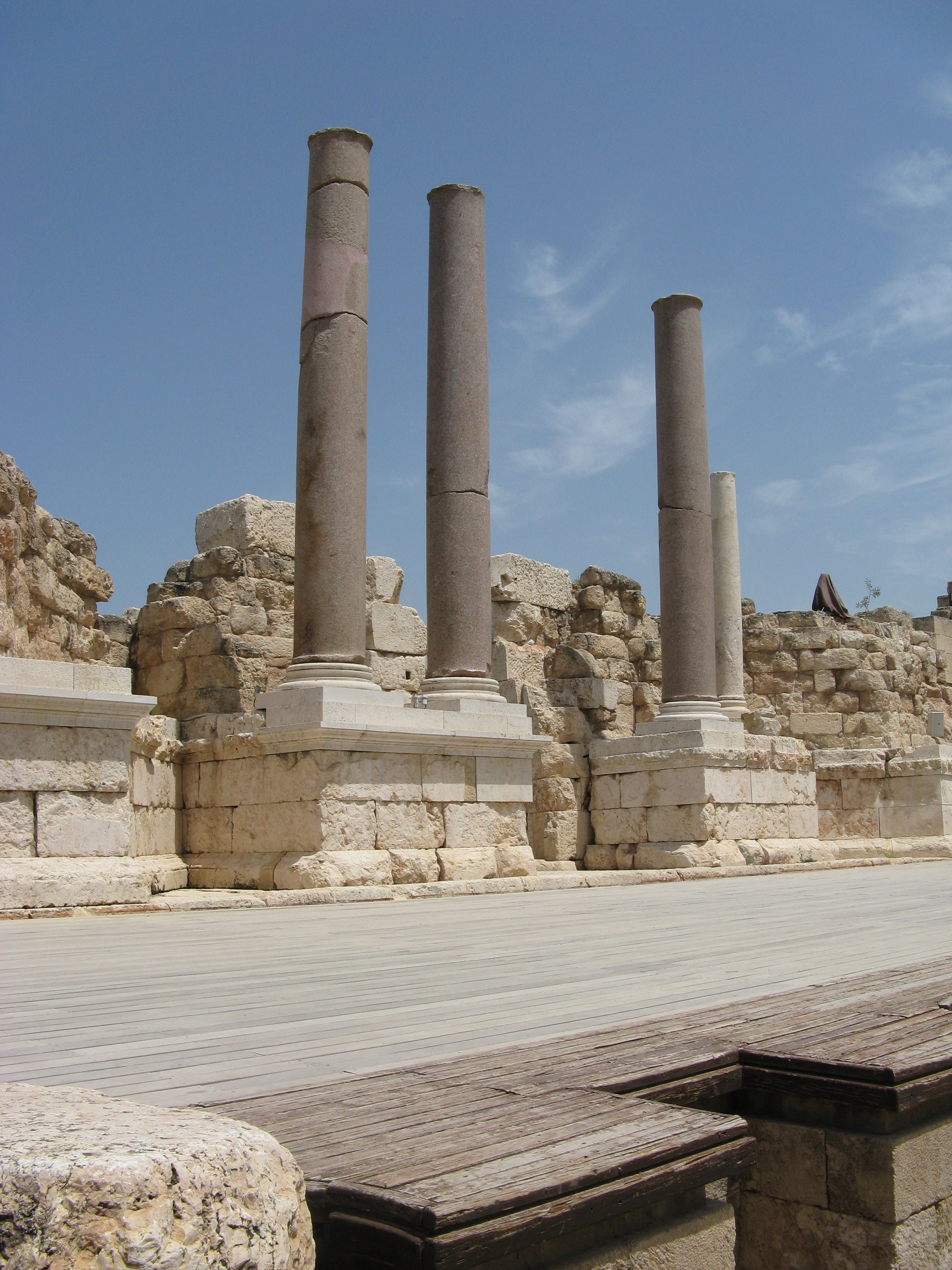 The ancient Scythopolis - the Theatre